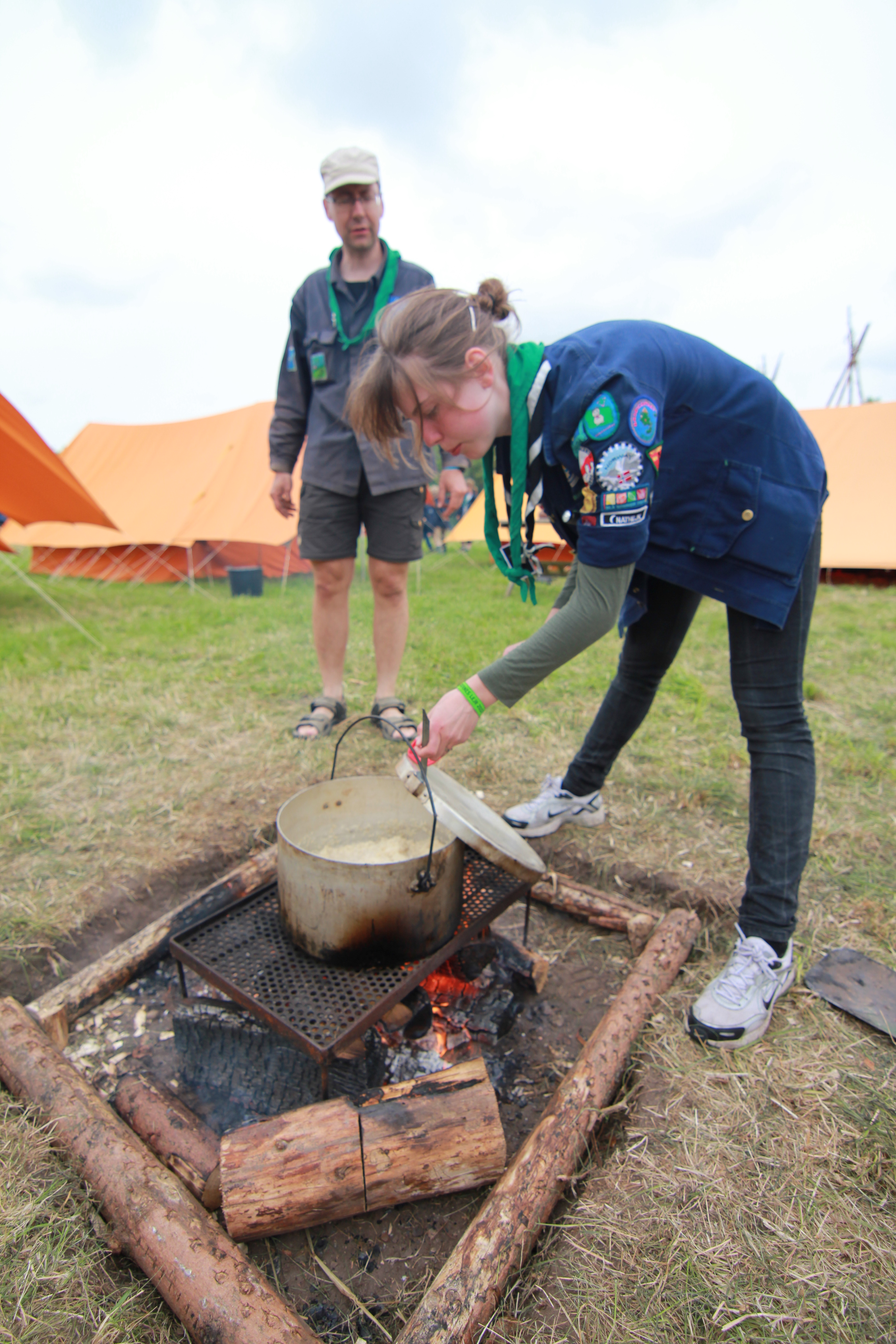 Scout cooking at Spejdernes lejr 2012 Jamboree camp in Holstebro, Denmark.